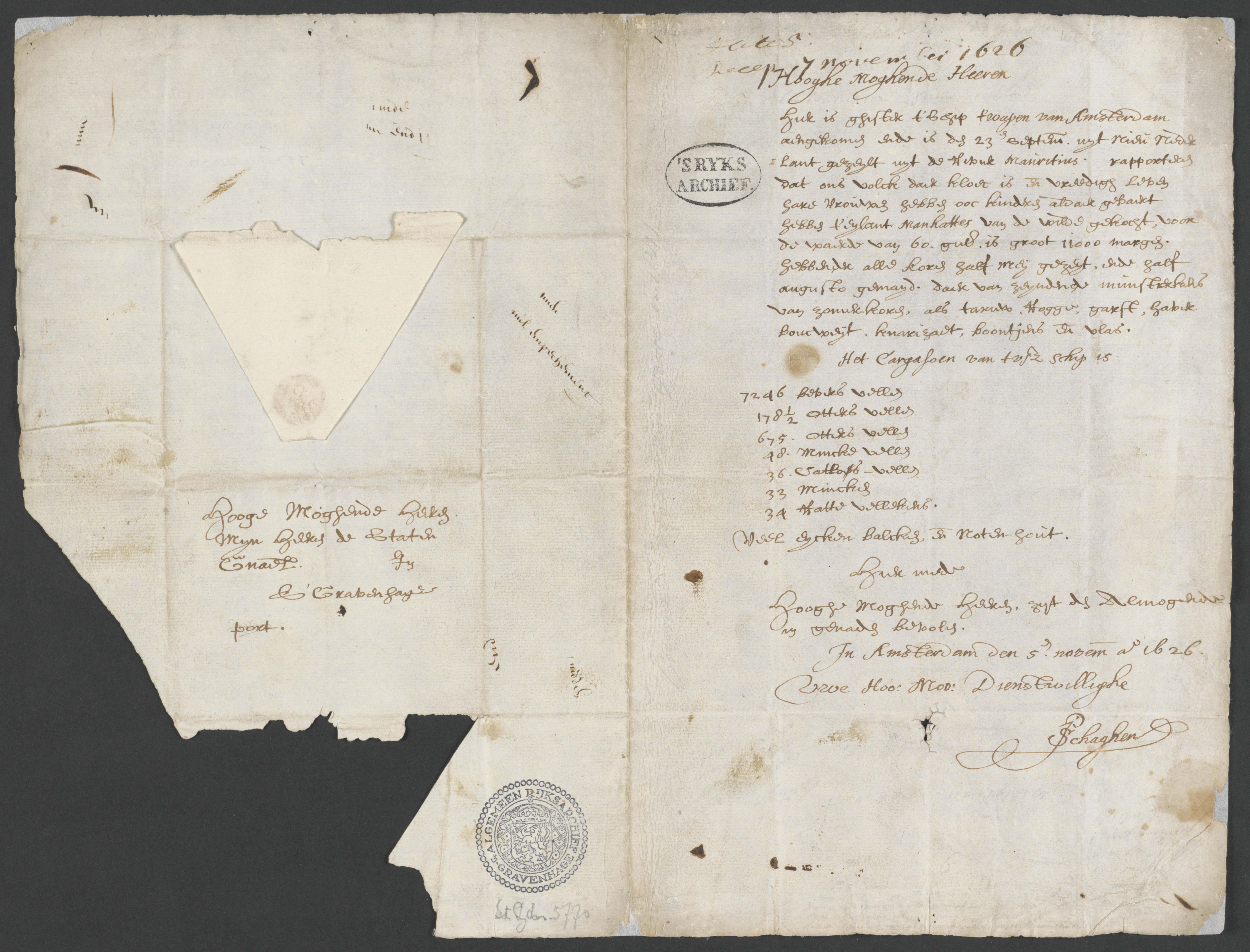 A Letter by Pieter Schaghen, board member of the Dutch West India Company, to the States General of the Netherlands. As a council member of the Amsterdam-based West India Company, Schaghen personally represented the federal legislative body of the Dutch Republic, which was seated in The Hague. Schaghen informs his superiors that a ship from New Netherland has arrived in Amsterdam the day before, the 4th of November 1626. This document is part of the collection of the Dutch National Archives in The Hague. Translation [3]: Received (in The Hague): 7th of November 1626. High and mighty lords, The ship 'The coat of arms of Amsterdam' has arrived here (in Amsterdam) yesterday and has sailed out of New Netherland on the 23rd of September through the Mauritius River. (Hereby) reporting that our people are in good spirit and are living there peacefully. The women have given birth to children there as well. (They) have bought the Island of Manhattes from the wild man, for the amount of 60 guilders. (The island) measures 11.000 morgen. (They) have sowed all grains in the middle of May and harvested (them) in the middle of August. The samples of summer grain, being wheat, rye, barley, oat, buckwheat, canary grass, beans and flax, are from this (harvest). The cargo of the aforesaid ship is: 7246 beaver skins 178½ otter skins 675 otter skins (apparently packaged separately from the first shipment of otter skins) 48 mink skins 36 cat skins 33 minks (without further specifications) 34 rat skins Many oak beams and heartwood. Herewith, high and mighty lords, be commended to the mercy of the Almighty. (Written) in Amsterdam, the 5th of November 1626. Your high and mightinesses' obedient (servant), Pieter Schaghen (signature) Description on the back: High and mighty lords, my lords (of) the States General in The Hague. Next to this diagonally: Without hinderance.